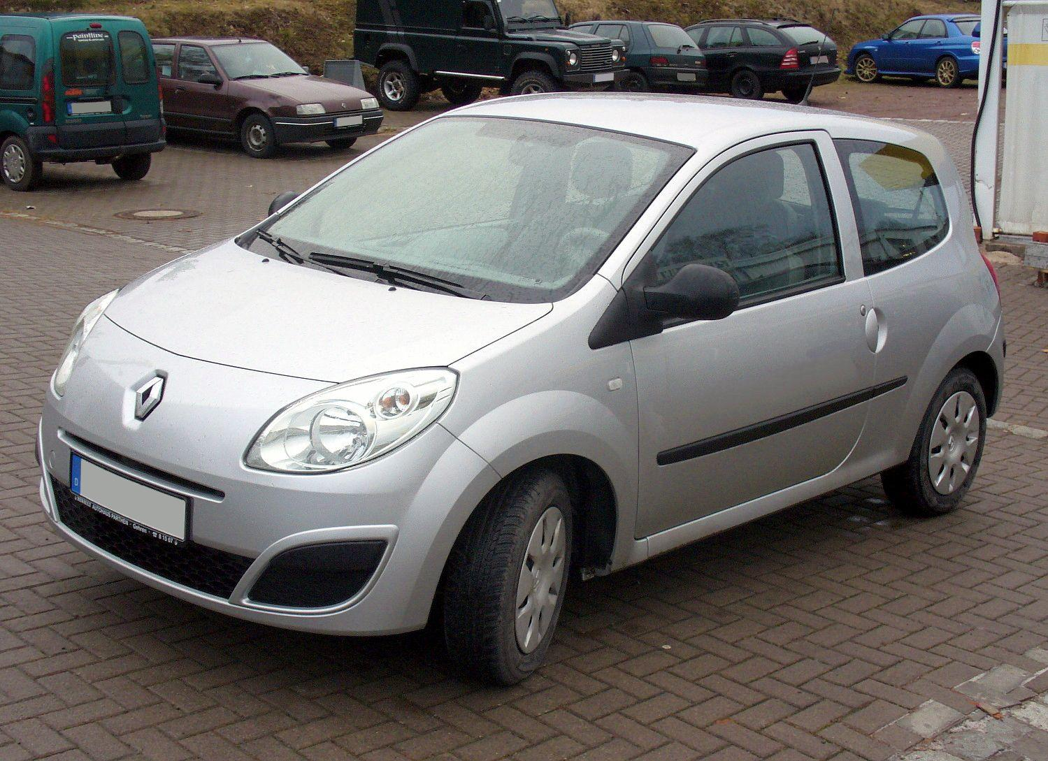 Renault Twingo II Phase I